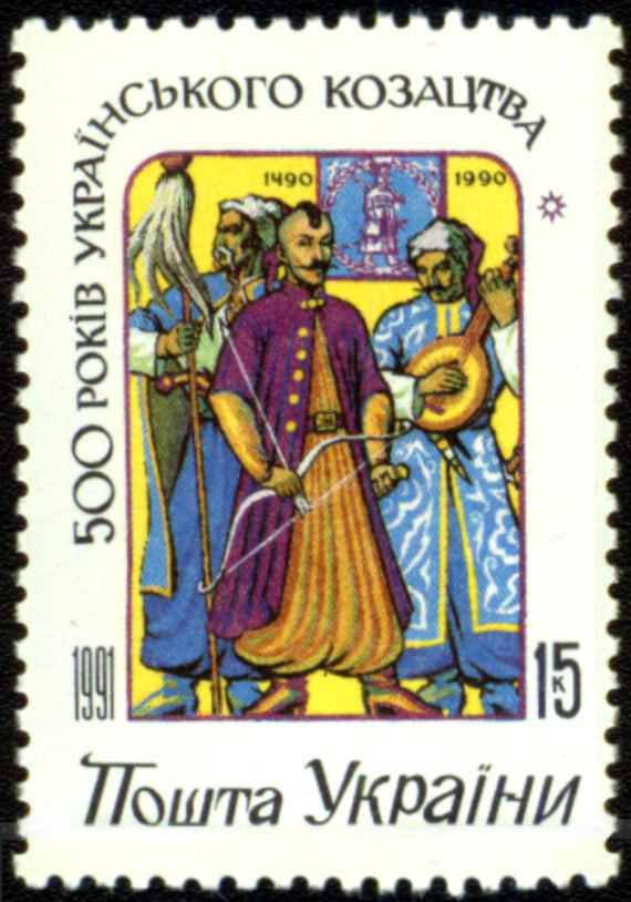 Stamp of Ukraine. 500 years of the Ukrainian Cossacks, 1992